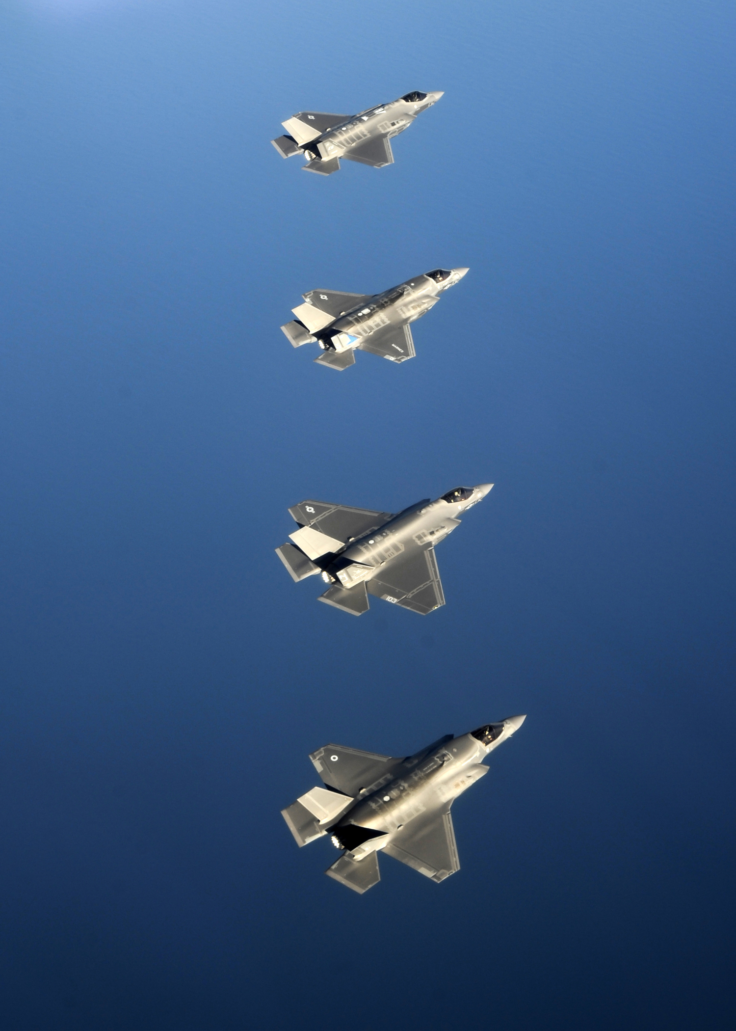 A United Kingdom Lockheed Martin F-35B Lightning II flies alongside a U.S. Navy F-35C of Strike Fighter Squadron 101 (VFA-101), a U.S. Marine Corps F-35B of Marine Fighter Attack Training Squadron 501 (VMFAT-501), and a U.S. Air Force F-35A of the 58th Fighter Squadron, 33rd Fighter Wing, in the skies above Eglin Air Force Base, Florida (USA), on 21 May 2014. The F-35s at Eglin AFB surpassed 5,000 combined training sorties on 28 May, contributing more than a third of all sorties in the Department of Defense program. The 33rd FW F-35 Integrated Training Center trains F-35 A/B/C Lightning II pilots, maintainers, air battle managers and intelligence personnel for the U.S. Marine Corps, the U.S. Navy, the U.S. Air Force and, in the future, at least eight international partners.